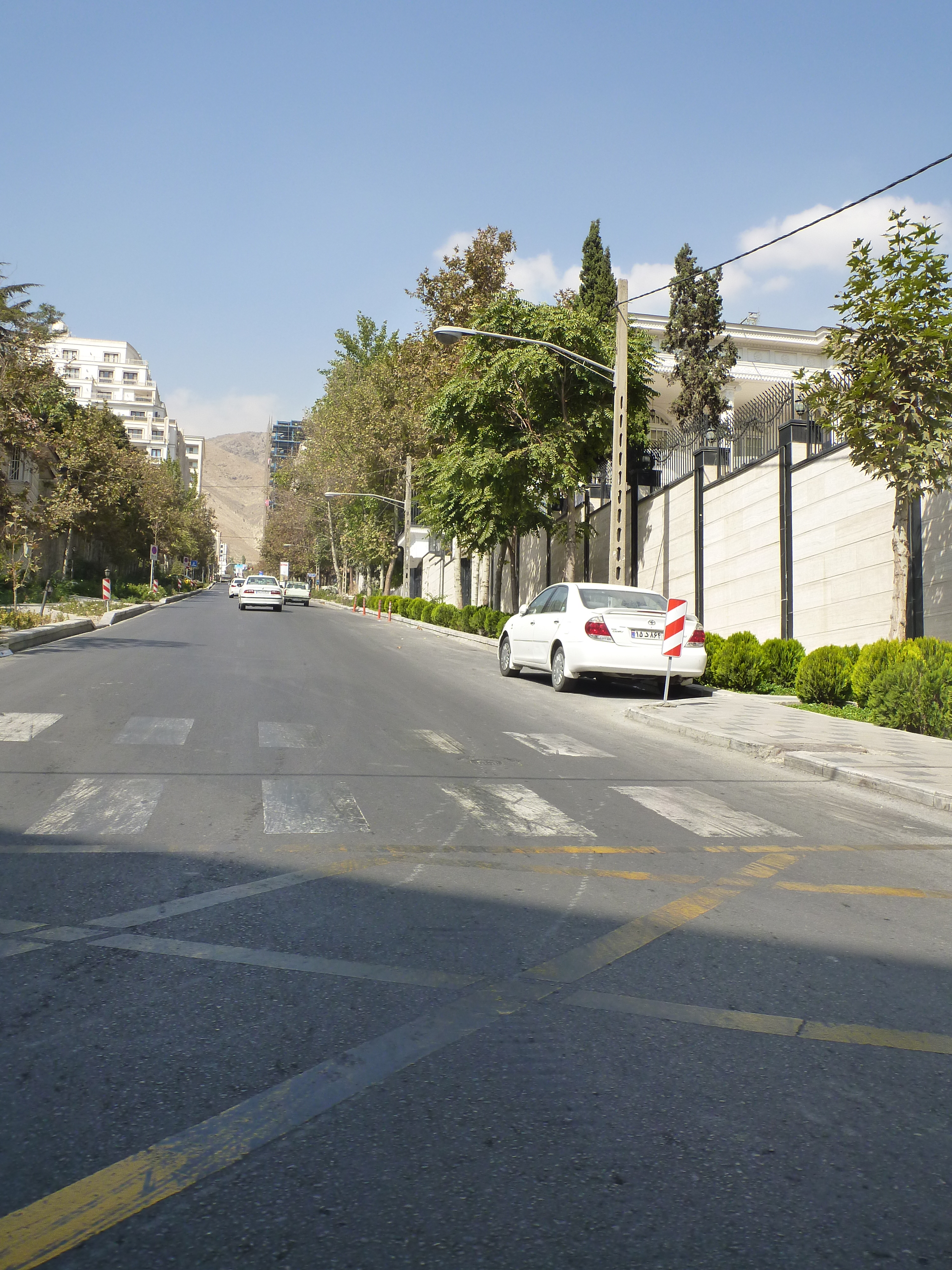 خیابان ولنجک